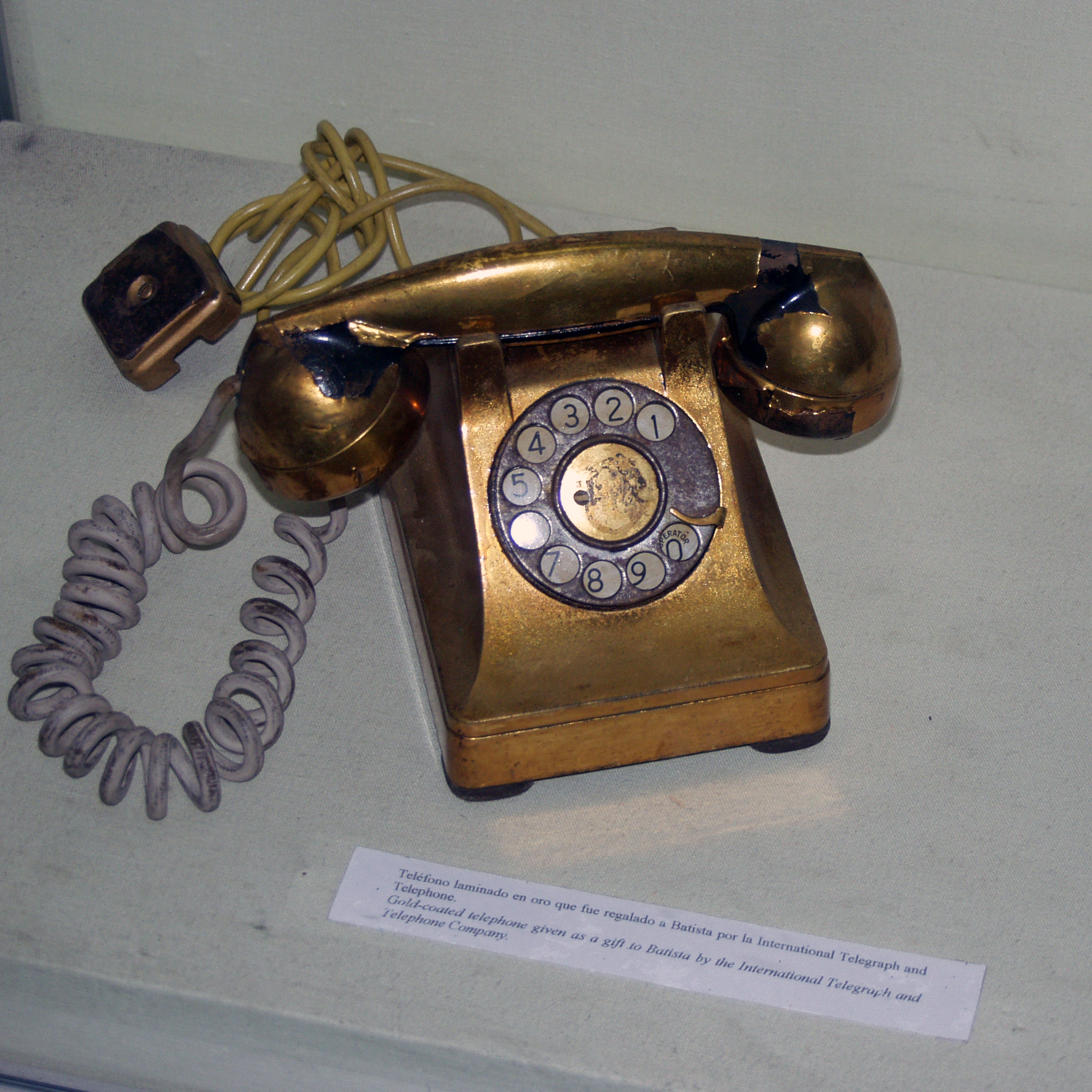 Museo de la Revolución, Havanna, Cuba:Gold-coated telephone given as a gift to Batista by the International Telegraph and Telephone Company (ITT).